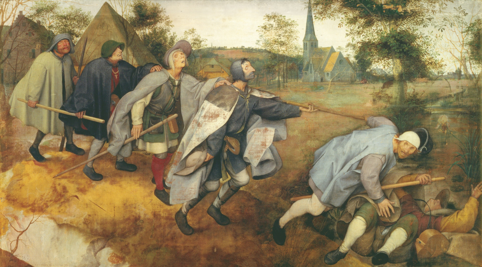 The Blind Leading the Blind (or The Parable of the Blind) by Pieter Bruegel the Elder. Six blind men stumble along a path.